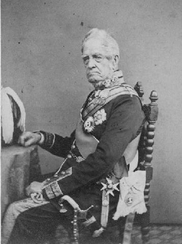 Sir George Pollock, 1st Baronet. Scanned from a photograph in my possession